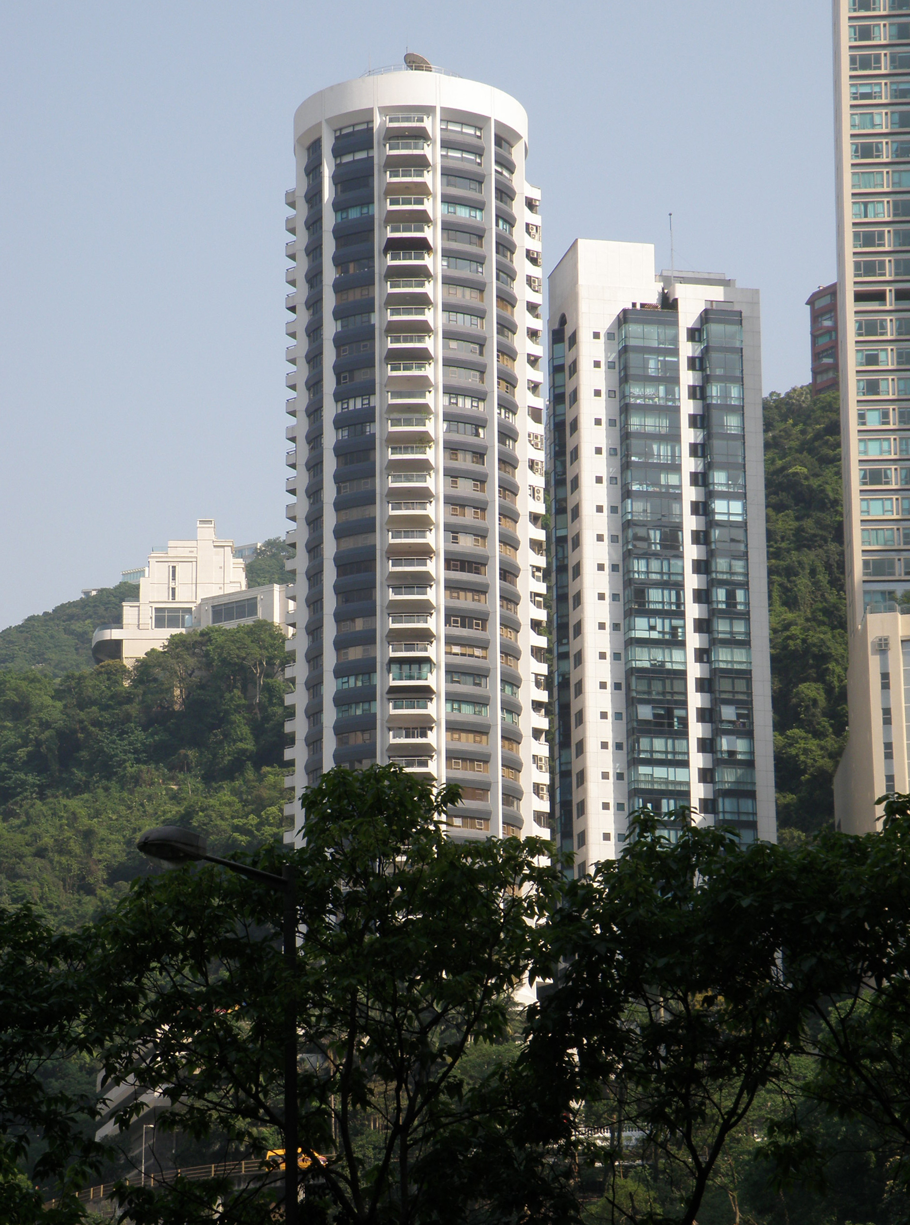 Century Tower in Mid-Levels, Hong Kong.